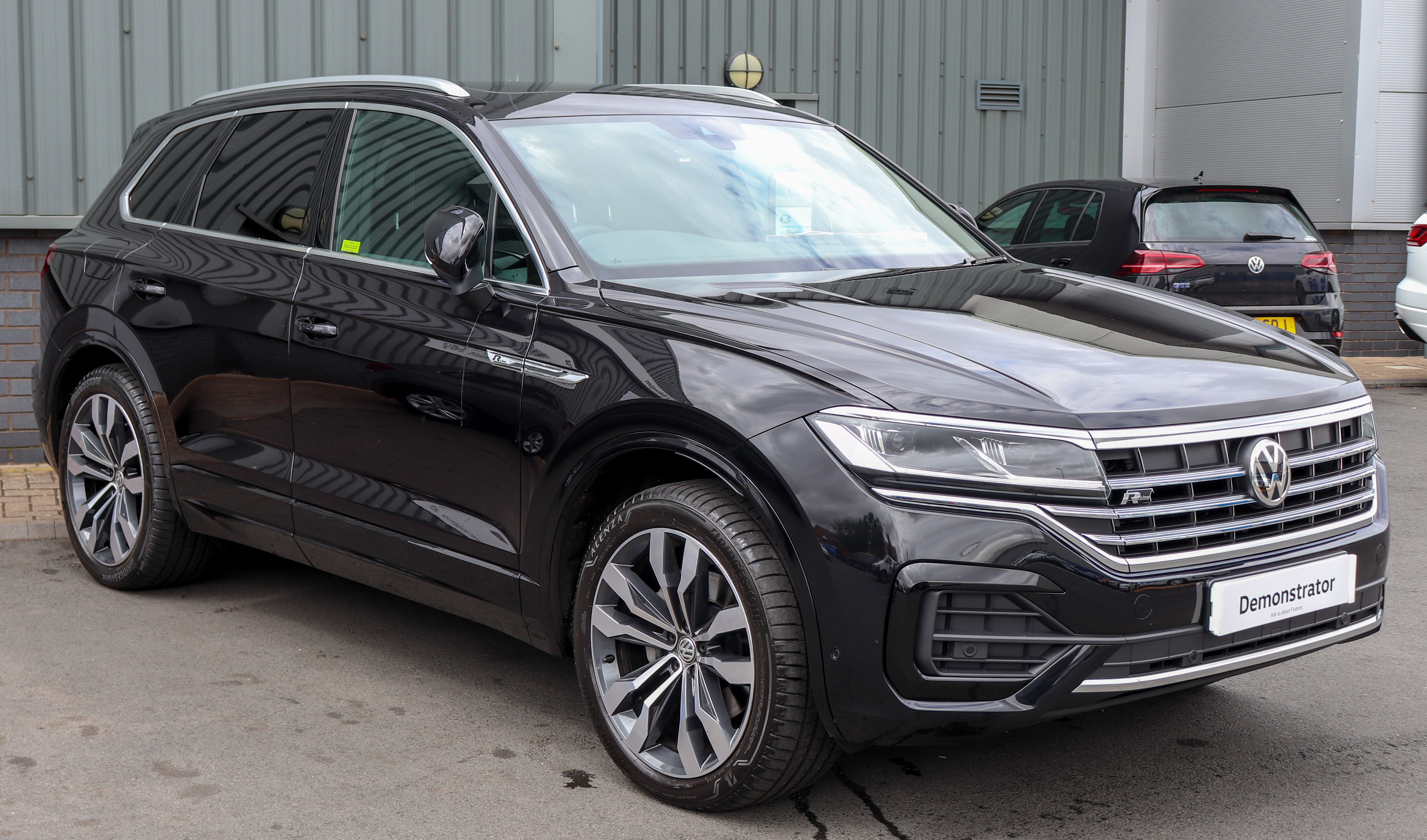 2018 Volkswagen Touareg V6 R-Line TDi Automatic 3.0 Front Taken in Stratford-upon-Avon